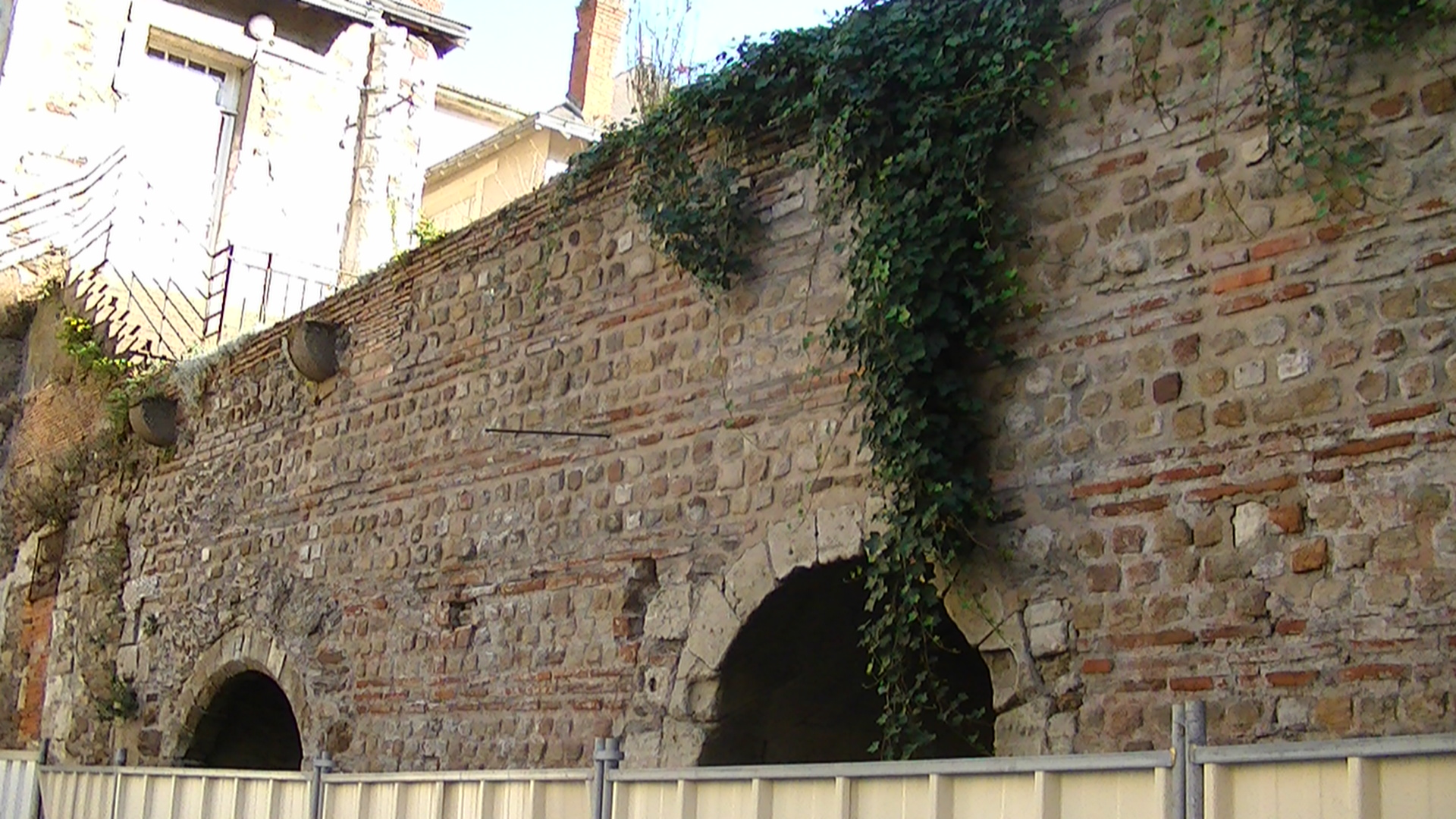 Detail of the remnants of the Gallo-Roman wall of Nantes, in the former Couvent des Cordeliers, now the École primaire Saint-Pierre .